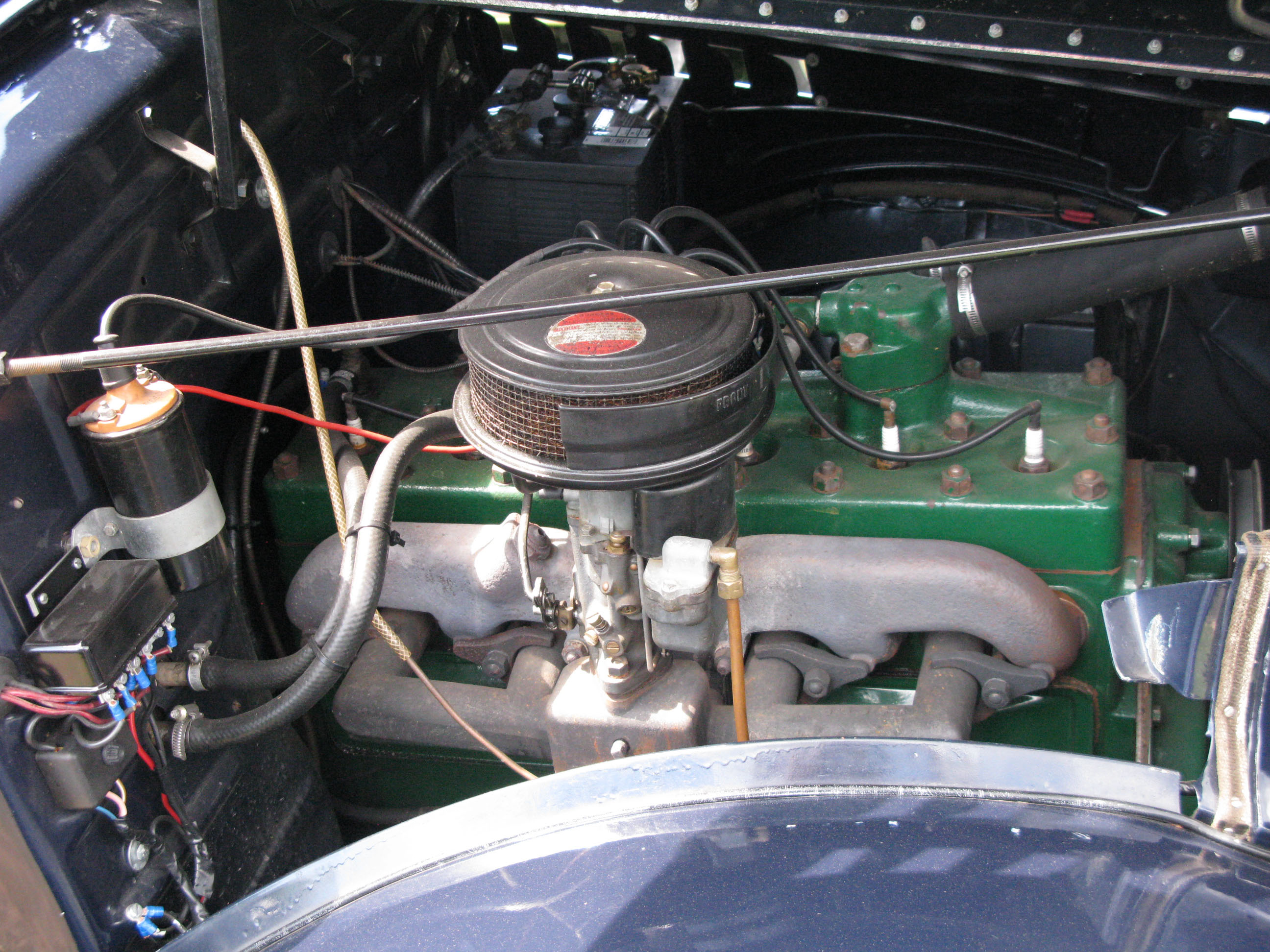 Volvo EC engine. Event: Ånnaboda Classic Motor 2018